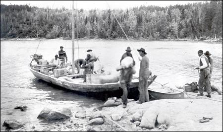 York boat. 1910 Archives of Manitoba Thomas, A.V. 79 (N 8153) York boat en route from Split Lake to Nelson House taken at File Falls on the Burntwood.